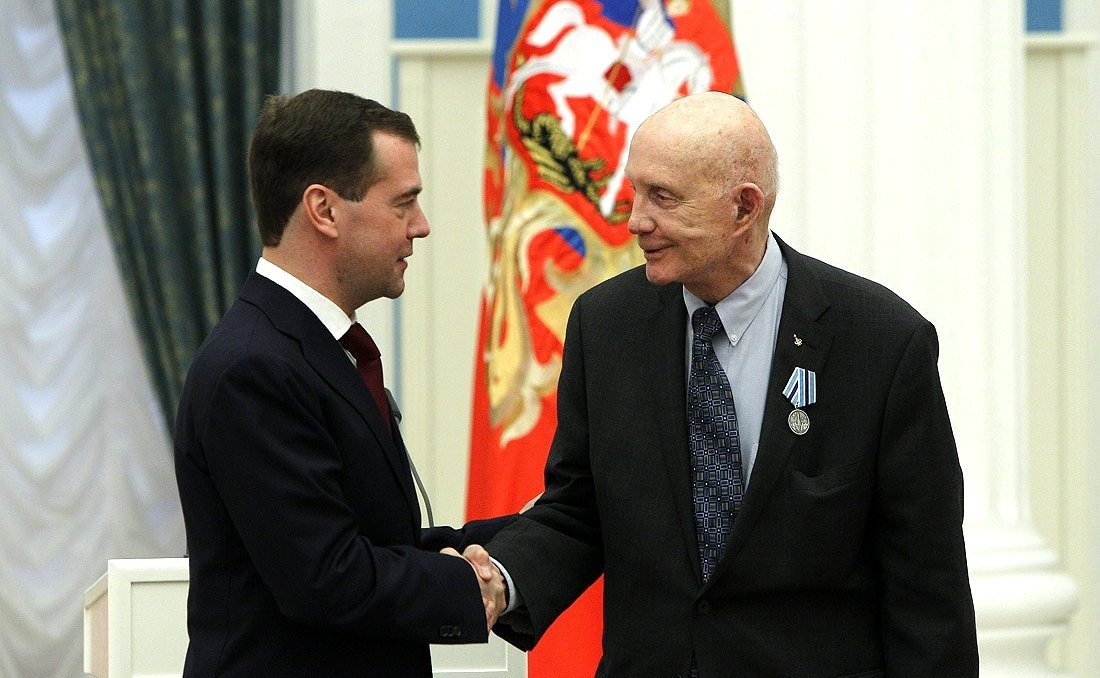 US astronaut Thomas Stafford was awarded the Medal for Merits in Space Exploration.